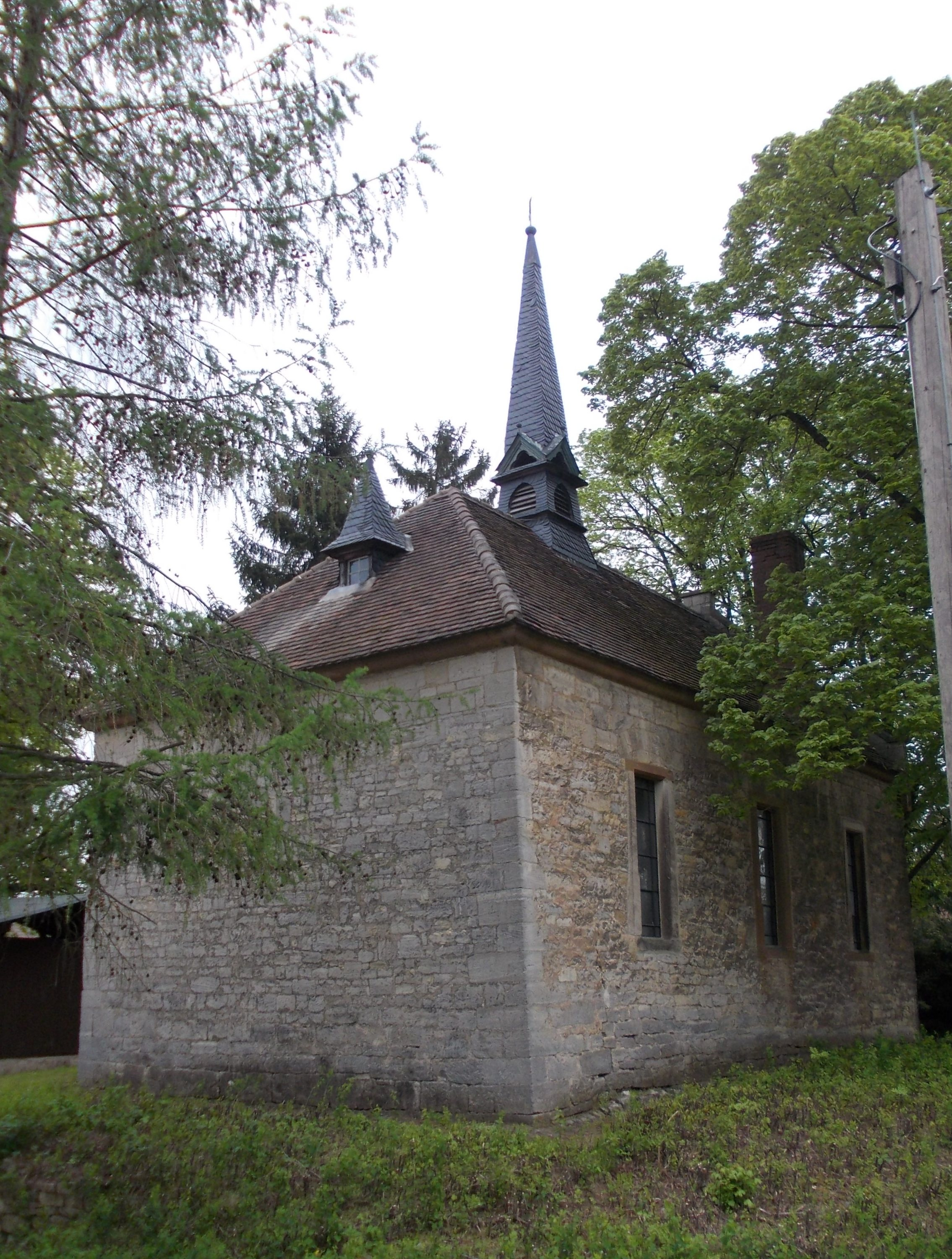 St. John's Church in Pomnitz (Lanitz-Hassel-Tal, district: Burgenlandkreis, Saxony-Anhalt)